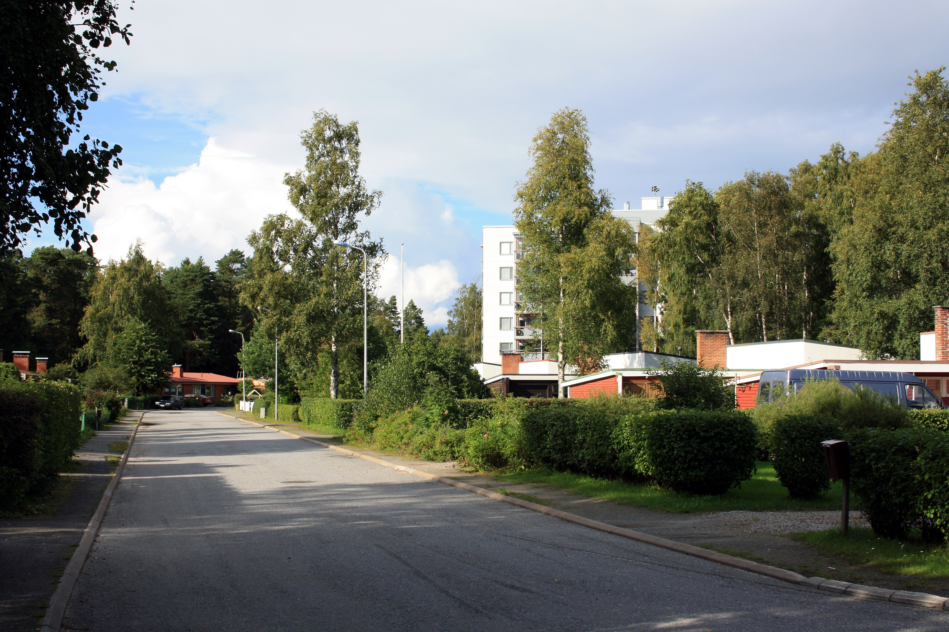 Kiviniitty in Kokkola, Finland.